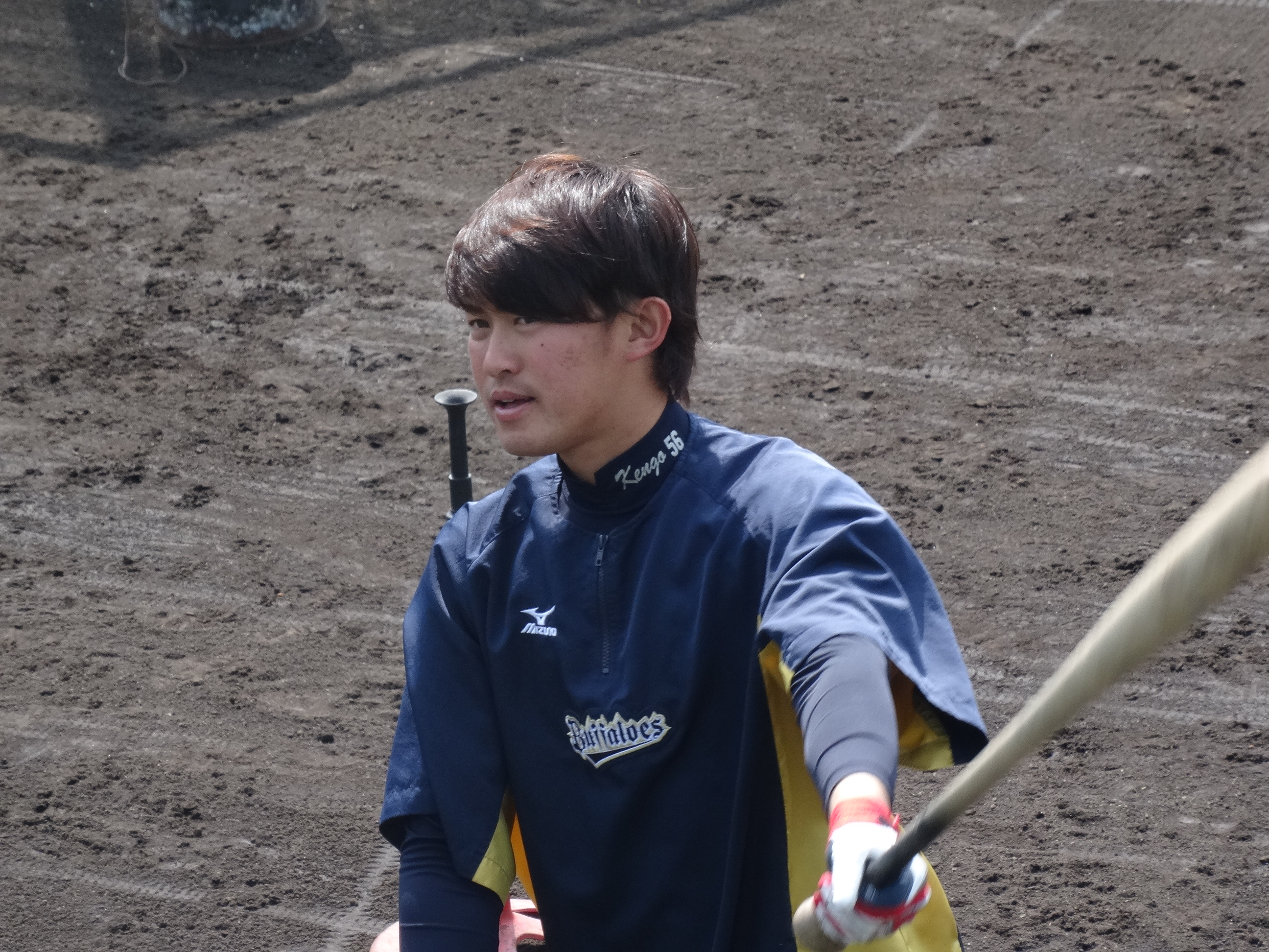 Kengo Takeda, outfielder of the Orix Buffaloes, at Hanshin Naruohama Baseball Ground